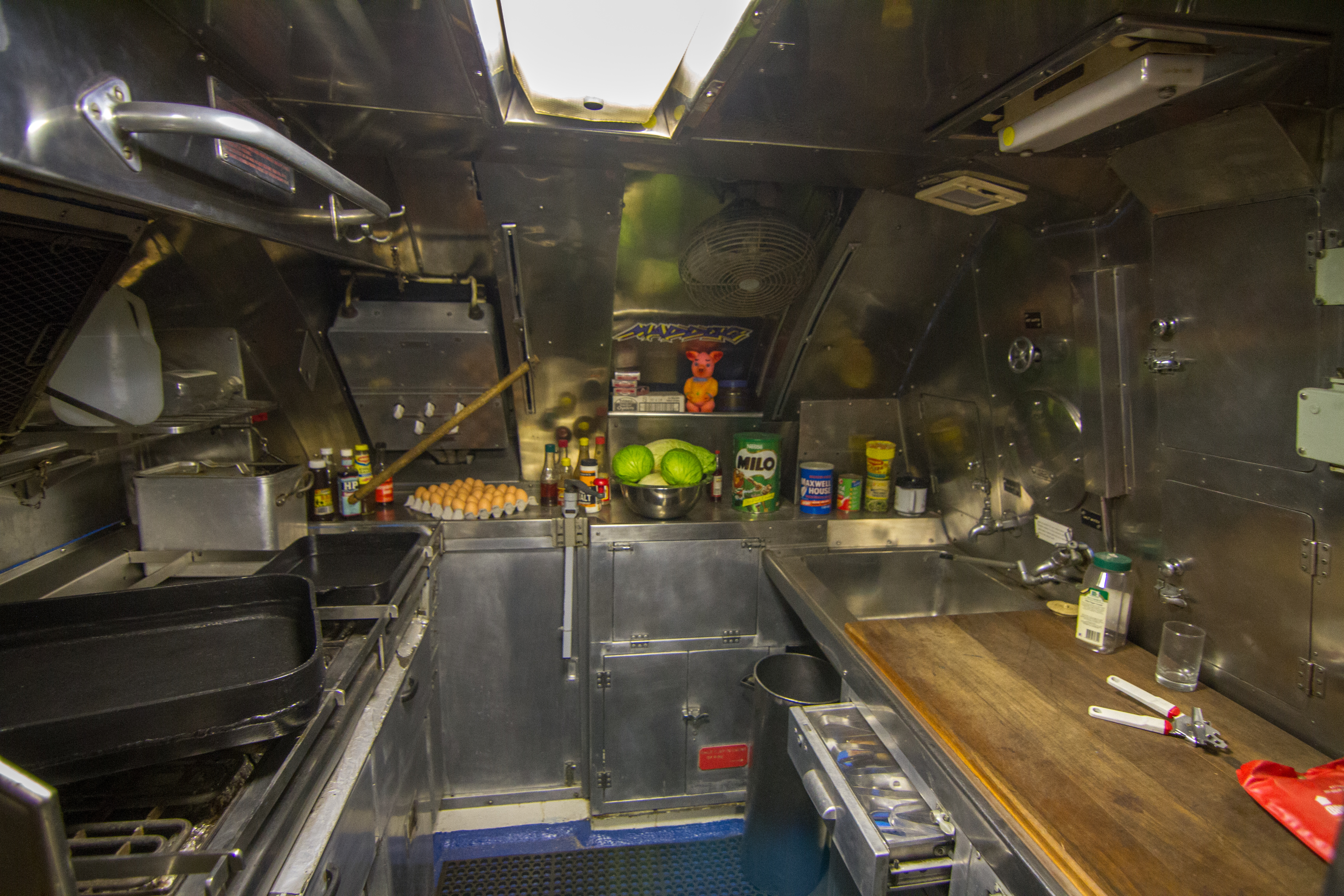 Ship's galley at HMAS Onslow